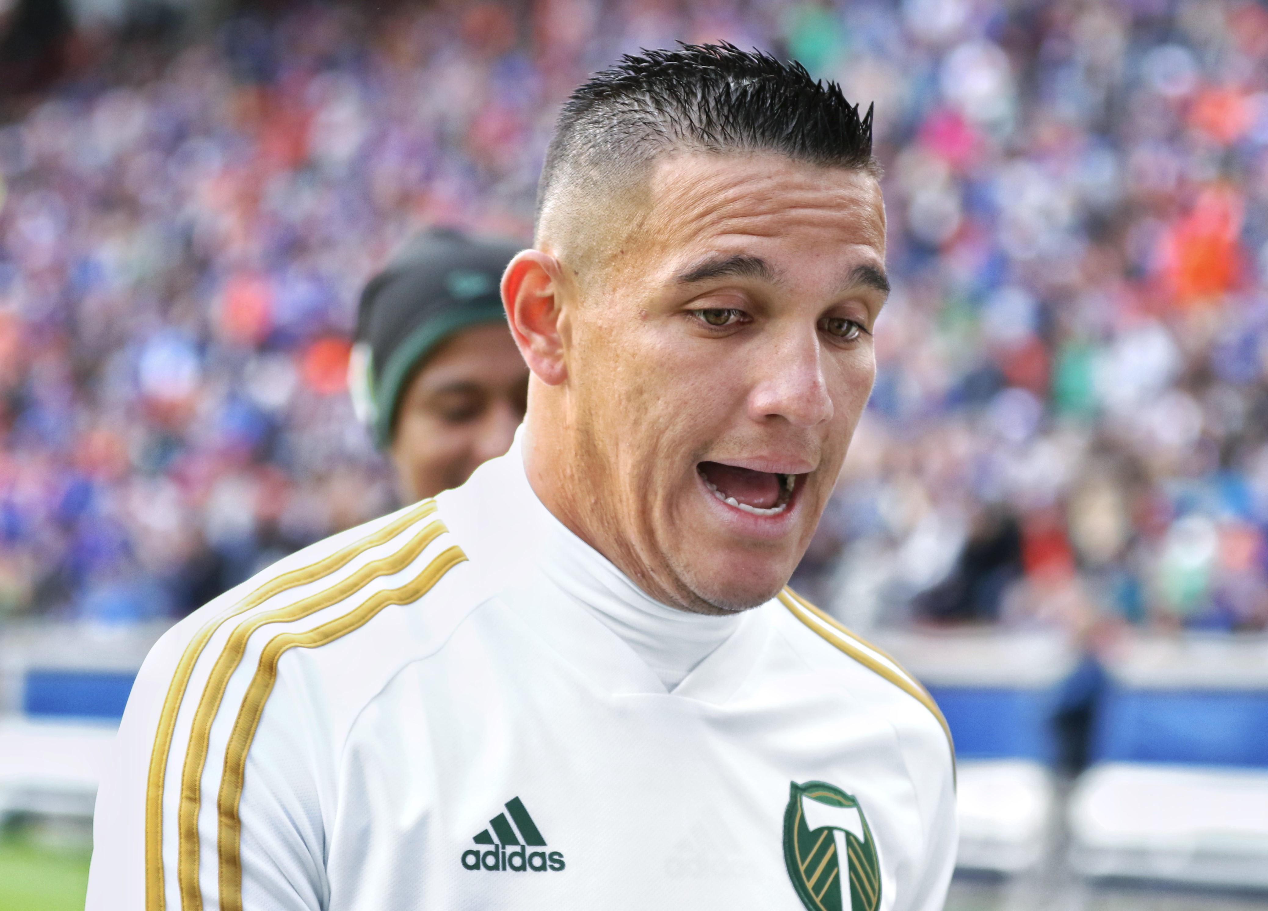 David Guzmán on March 17, 2019.